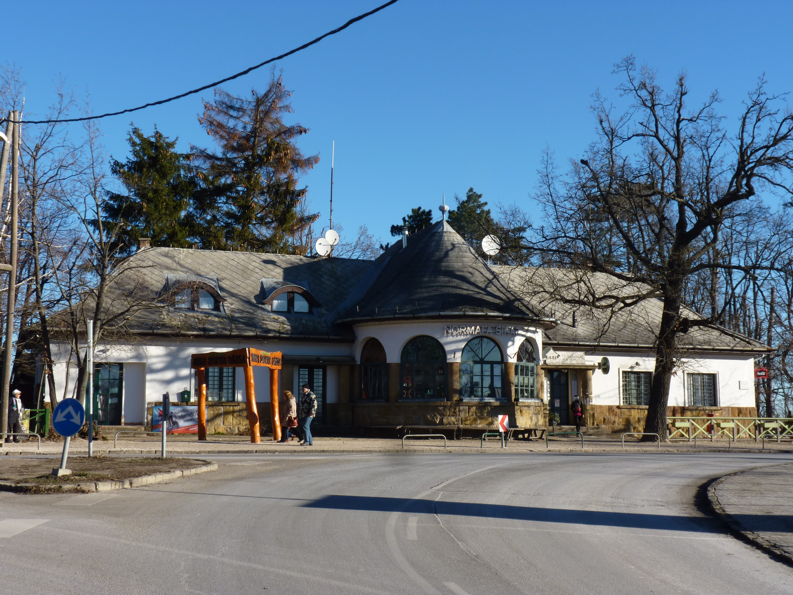 Normafa Síház (Ski House)